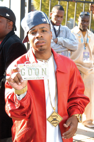 Plies